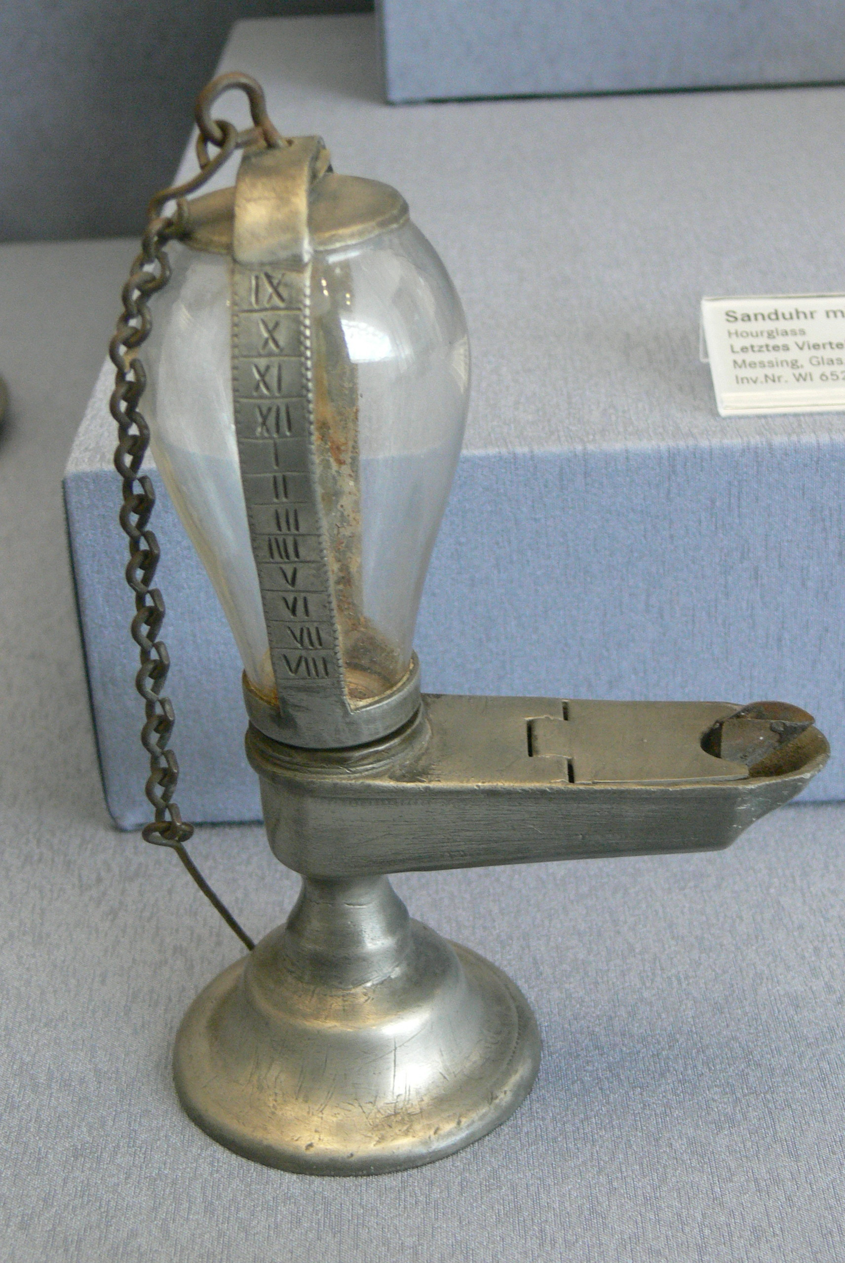 German National Museum ( Nuremberg / Germany ). Oil lamp clock ( 18th century ).